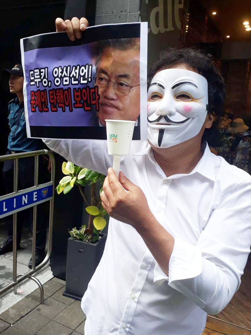 At the front of the special prosecutor's office for South Korea's opinion rigging scandal investigations, a protester wearing Guy Fawkes mask is holding a banner that criticizes Druking, the main perpetrator, and that calls for Moon Jae-in's impeachment.